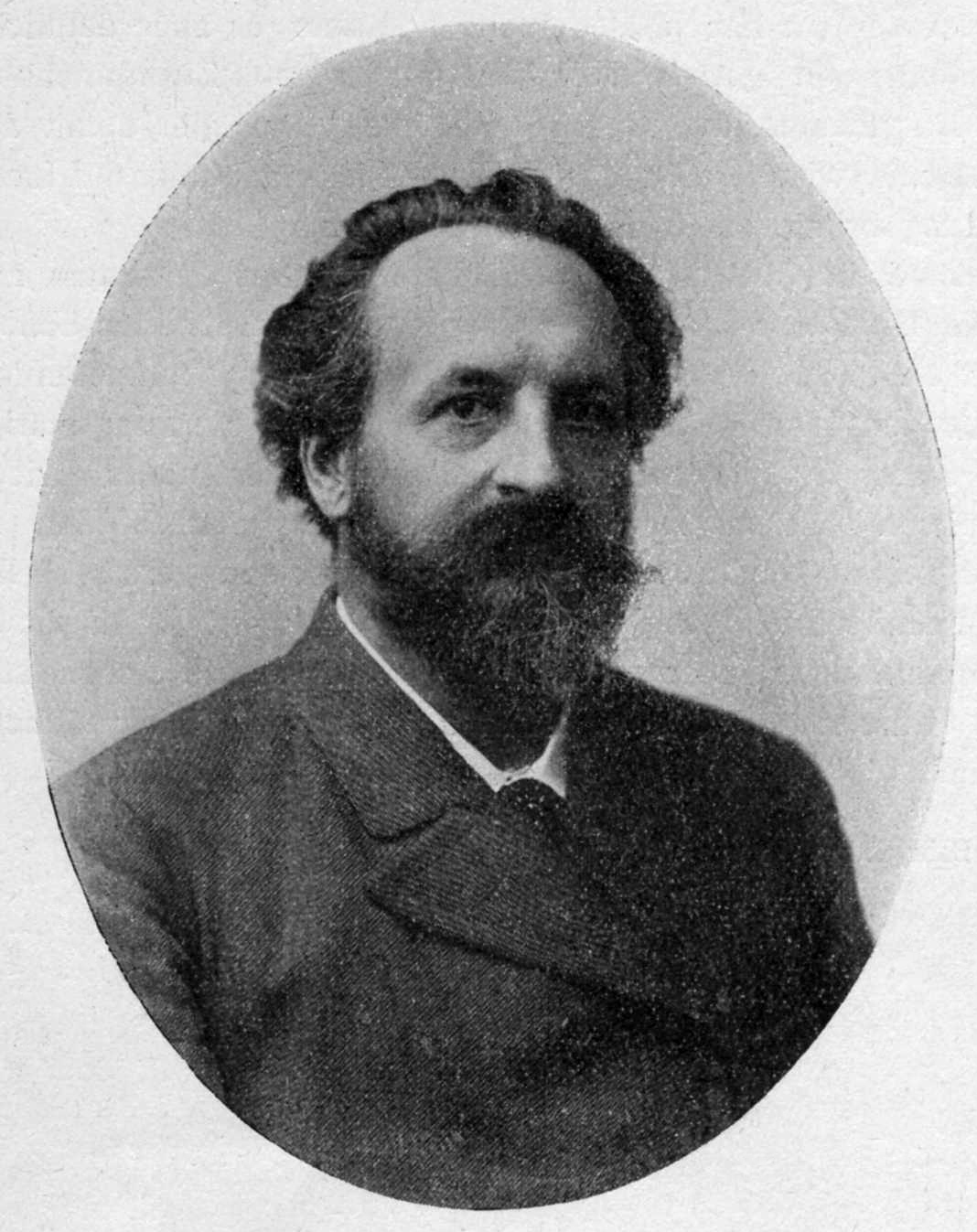 Adolf von Wilbrandt